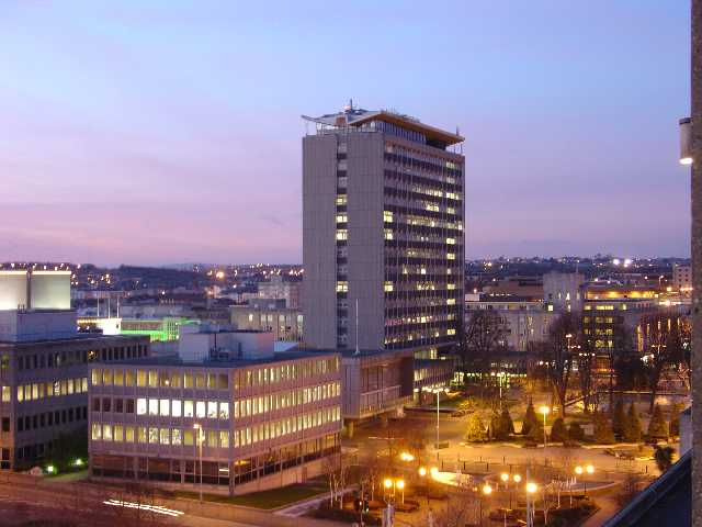 Council Offices, Plymouth. A landmark at the S end of Amarda way. Characteristic of the blocky concrete style of much of the centre of Plymouth (which was rebuilt after most of the original buildings in this area were bombed during world war 2). View taken from Moat House Hotel.